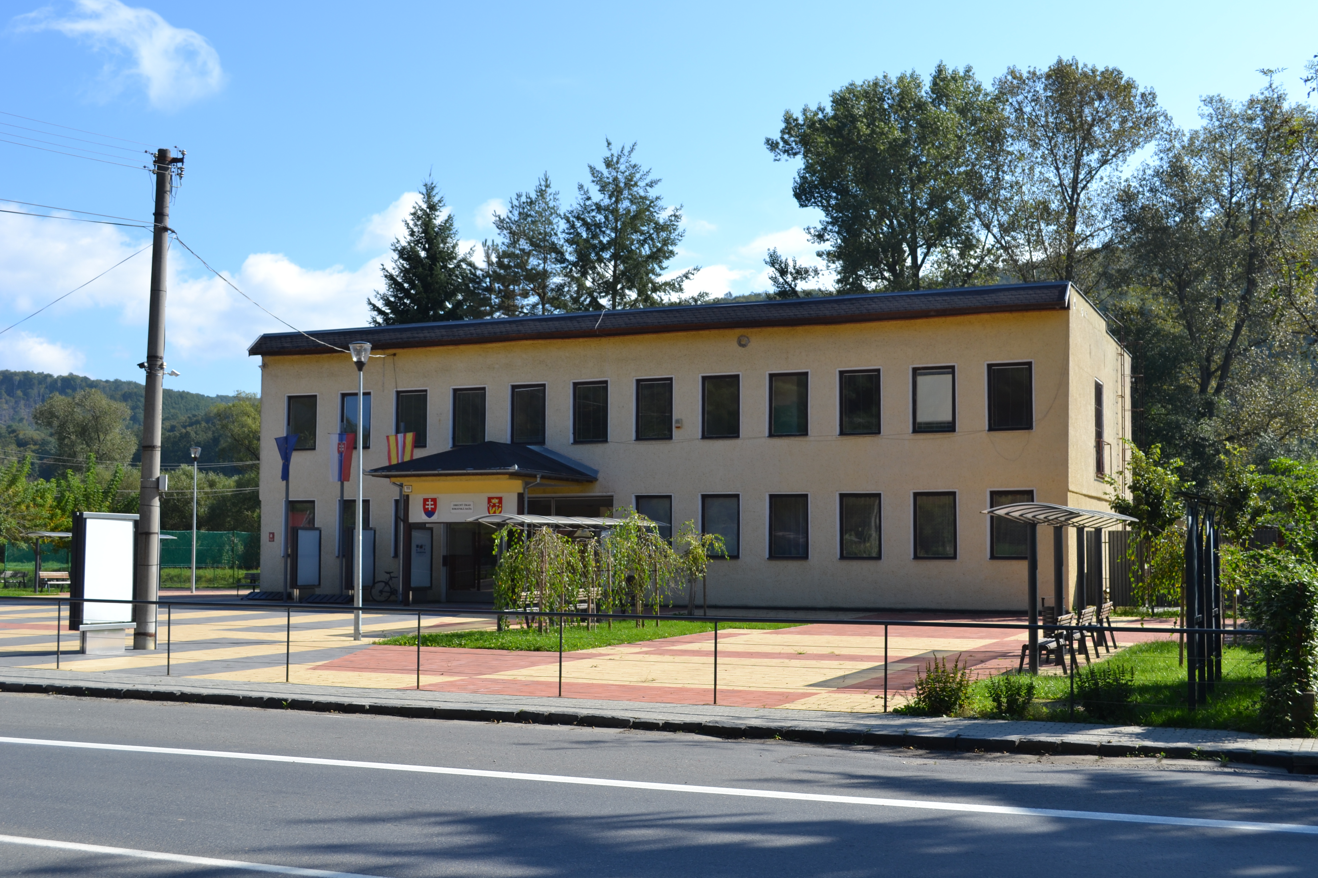 Municipal office in the village Rimavská BaňaSlovenčina: Obecný úrad v Rimavskej Bani